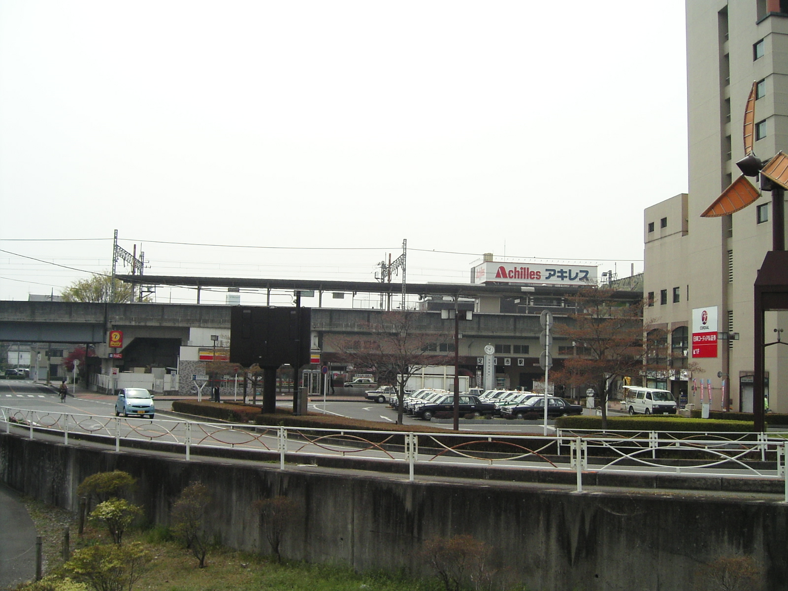 Ashikagashi station North Gate (Tobu Isesaki Line) in Tochigi pref, Japan 足利市駅北口（東武伊勢崎線）